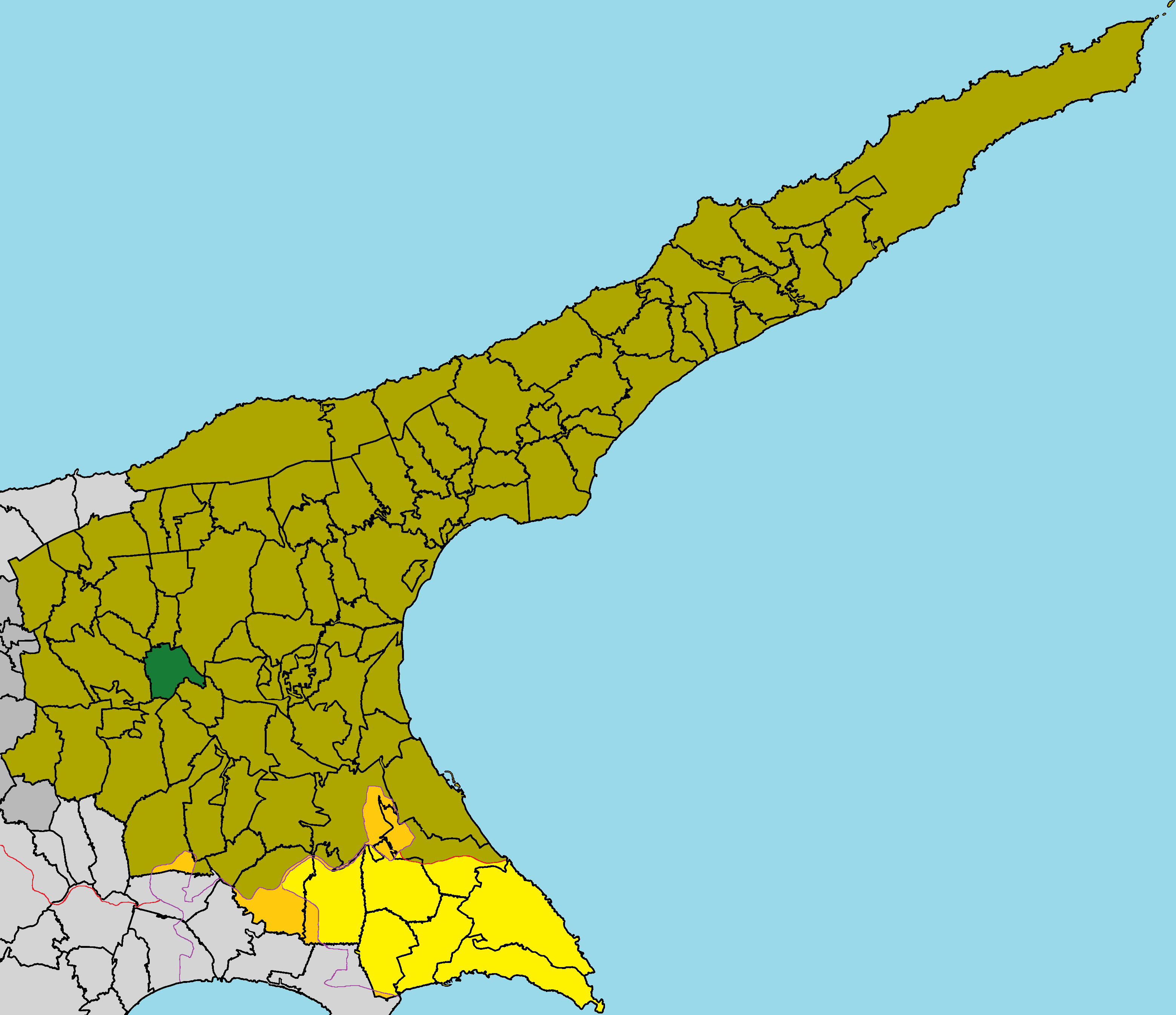 Genagra in Famagusta District (de jure).